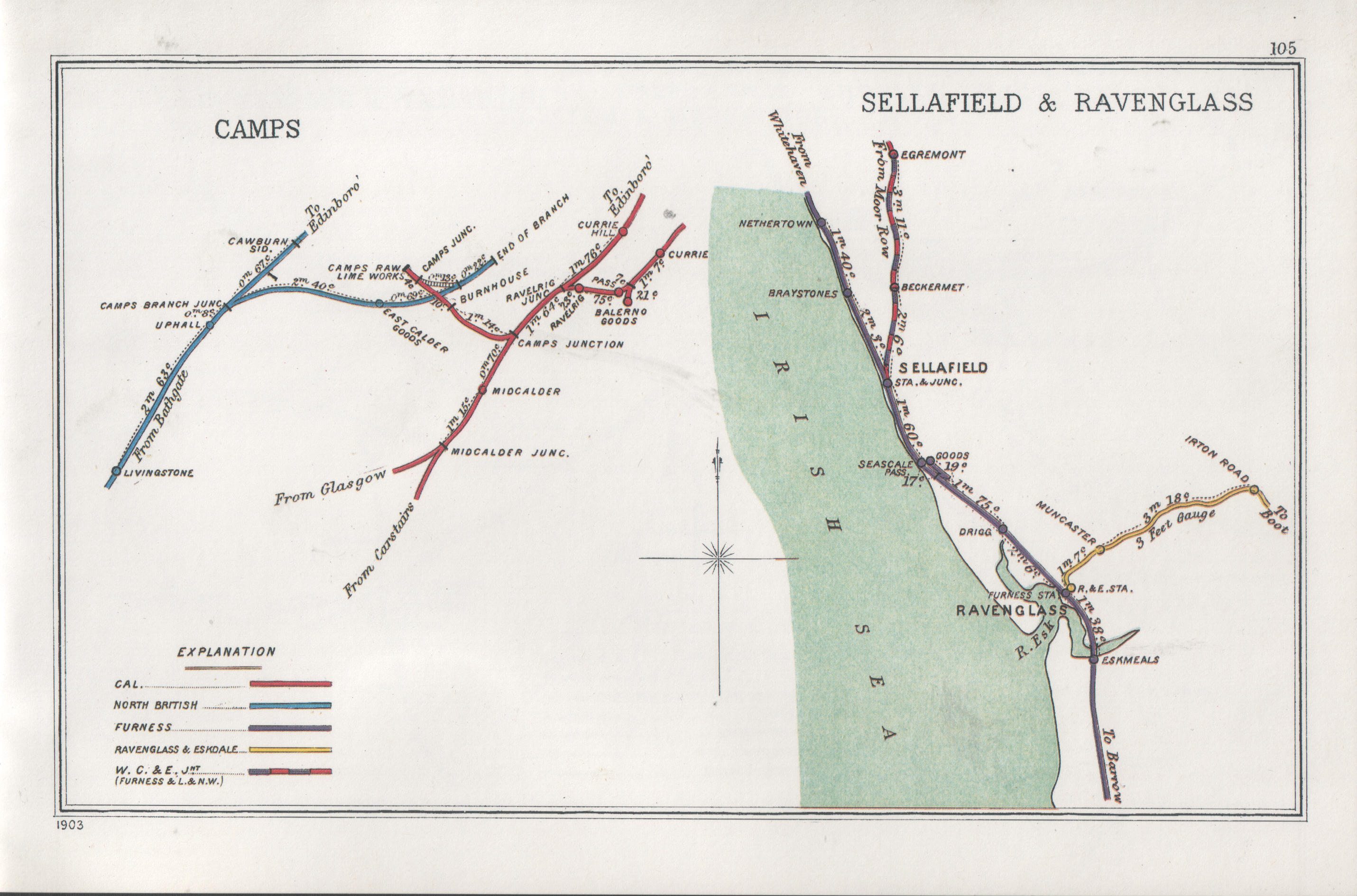 Pre Grouping railway junction around Camps; Sellafield & Ravenglass